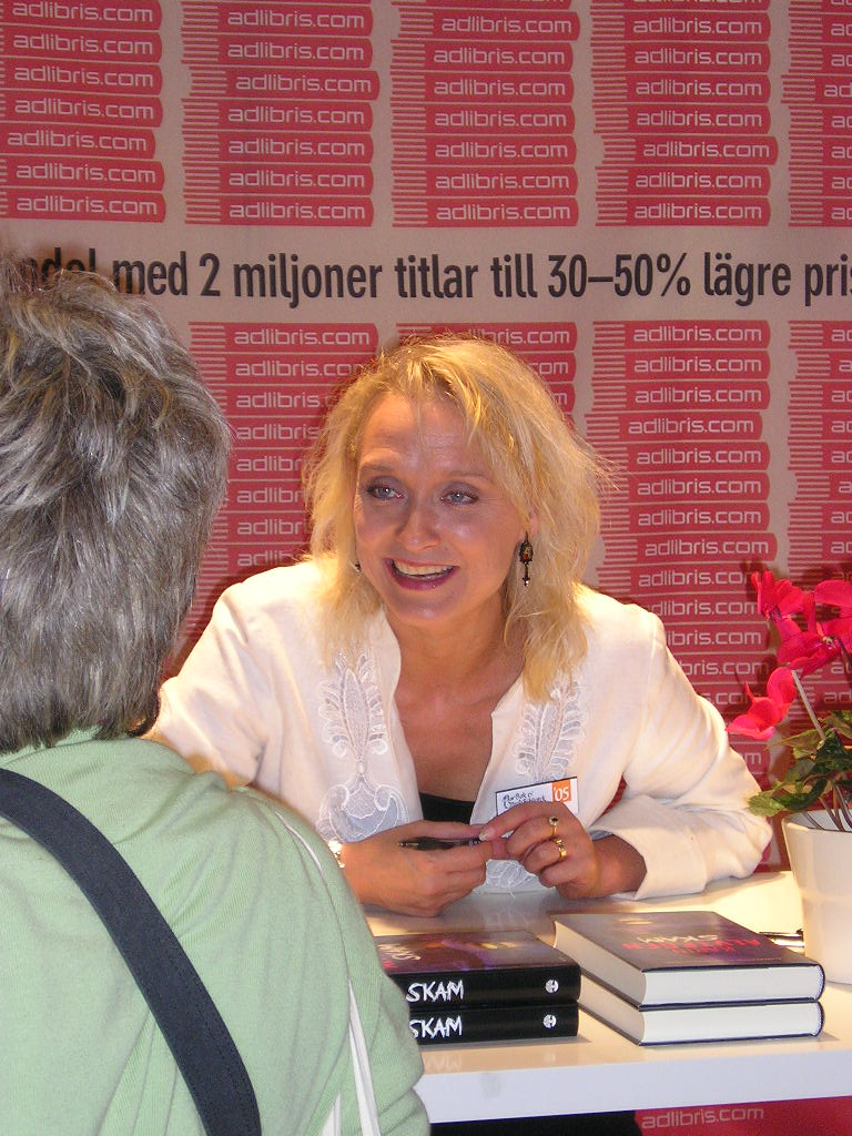 Picture taken at Gothenburg Book Fair 2005 by Lennart Guldbrandsson